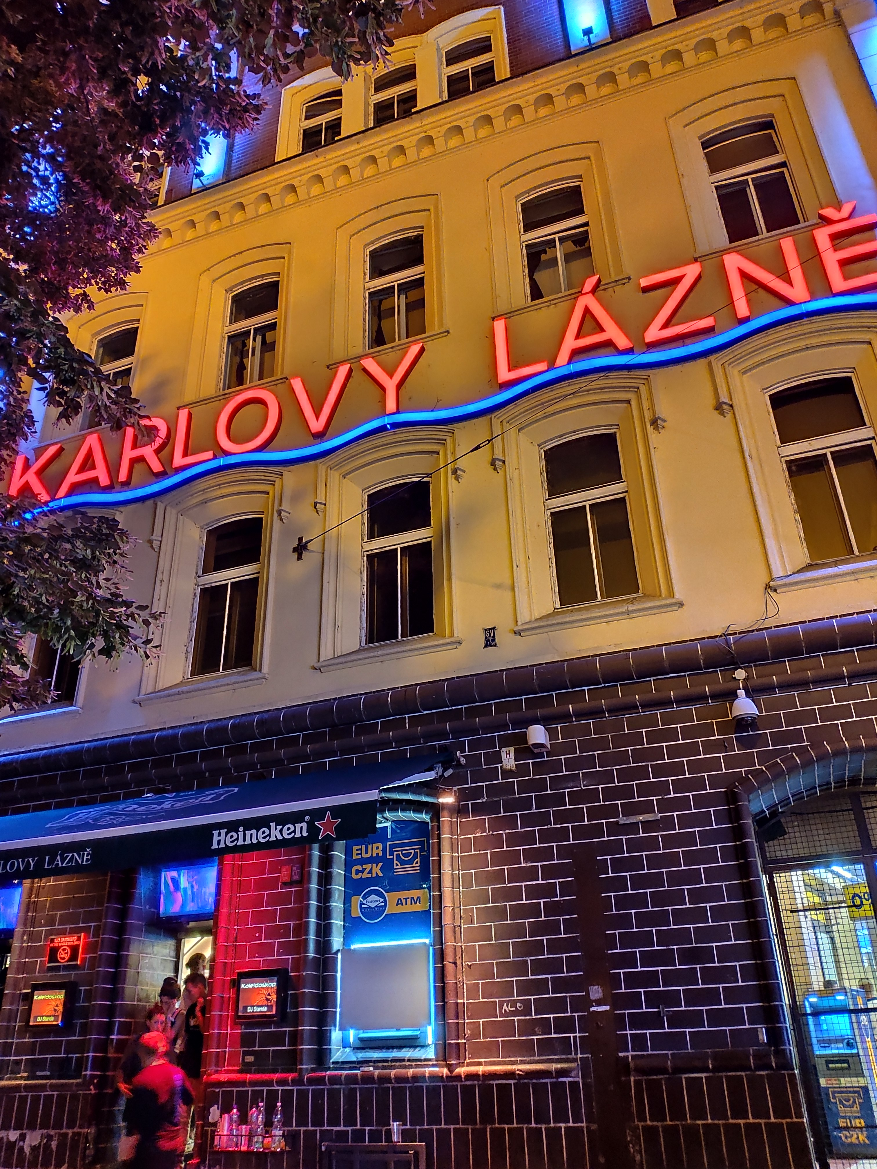 the façade of the Karlovy lázně by night